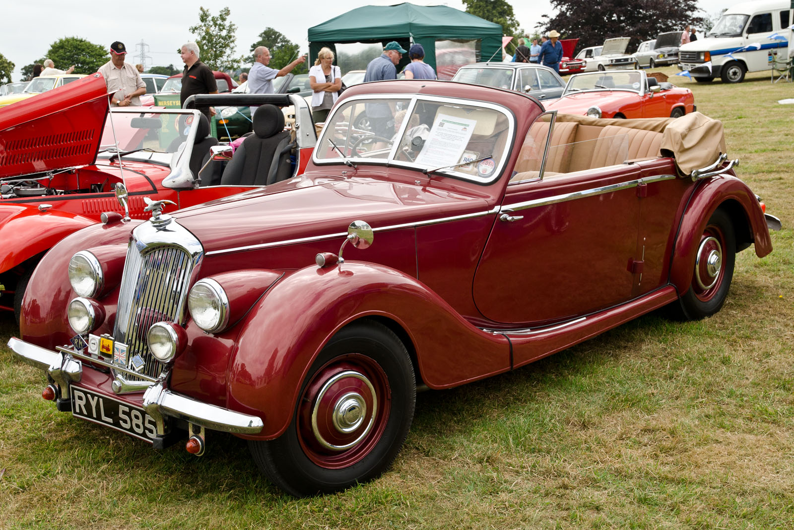 Riley RMD drop head coupé 1950 (DVLA) first registered 14 April 1950, 2442ccBodelwyddan Classic Car Show 21/07/2013